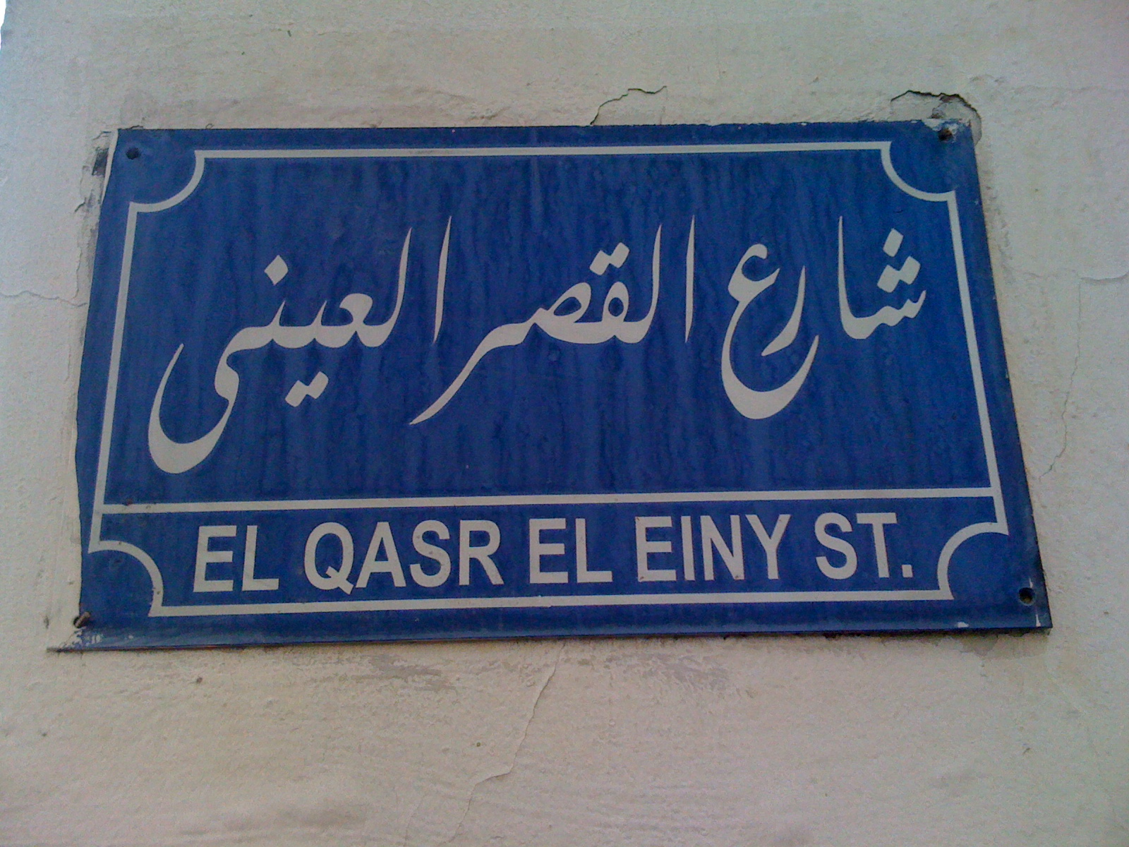 "El-Qasr El-Einy Street" as displayed on the street